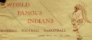 World Famous Indians letterhead